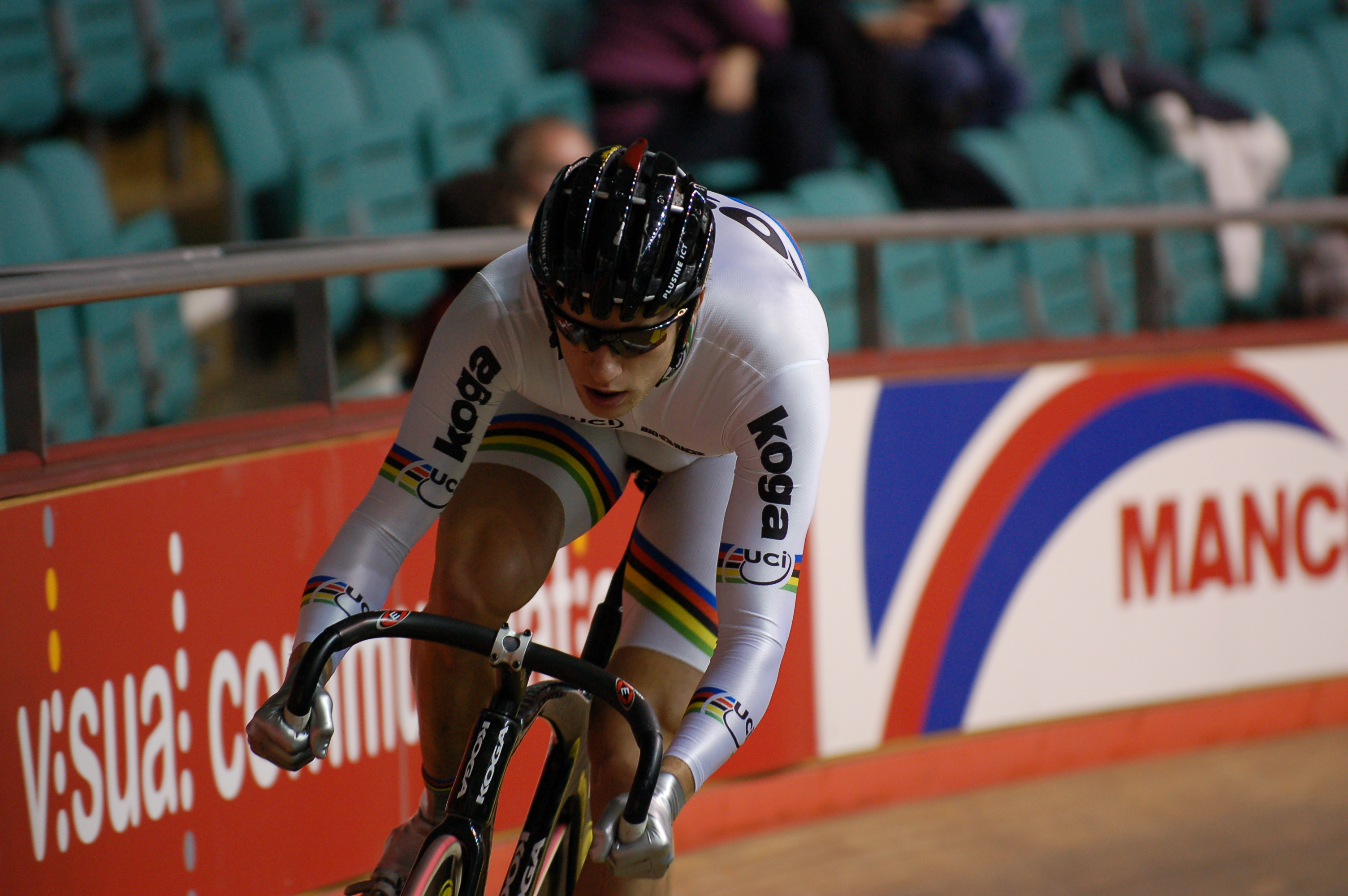 Theo Bos about to break the Manchester Velodrome track record with a time of 10.058 seconds, for 200m, in his qualification ride